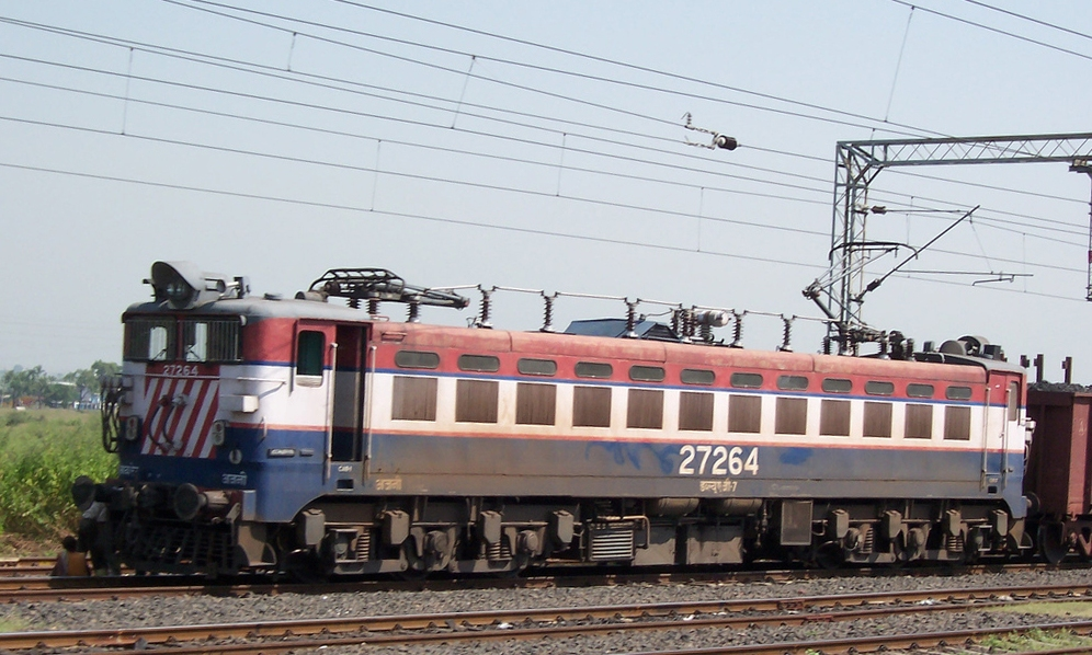 AJNI WAG-7